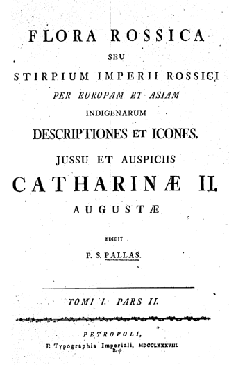 Cover page of book «Flora rossica» (2nd part, 1788)